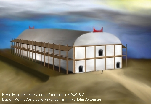 Reconstruction of the Temple from Nebelivka, Ukraine. c 4000 B.C. Trypillian (Danube) civilization. 60x20m size. Based on information from "Temple on Nebelivka mega-site: reconstruction" by Nataliia Burdo, Mykhailo Videiko, Institute of Archaeology NAS of Ukraine, Kyiv.